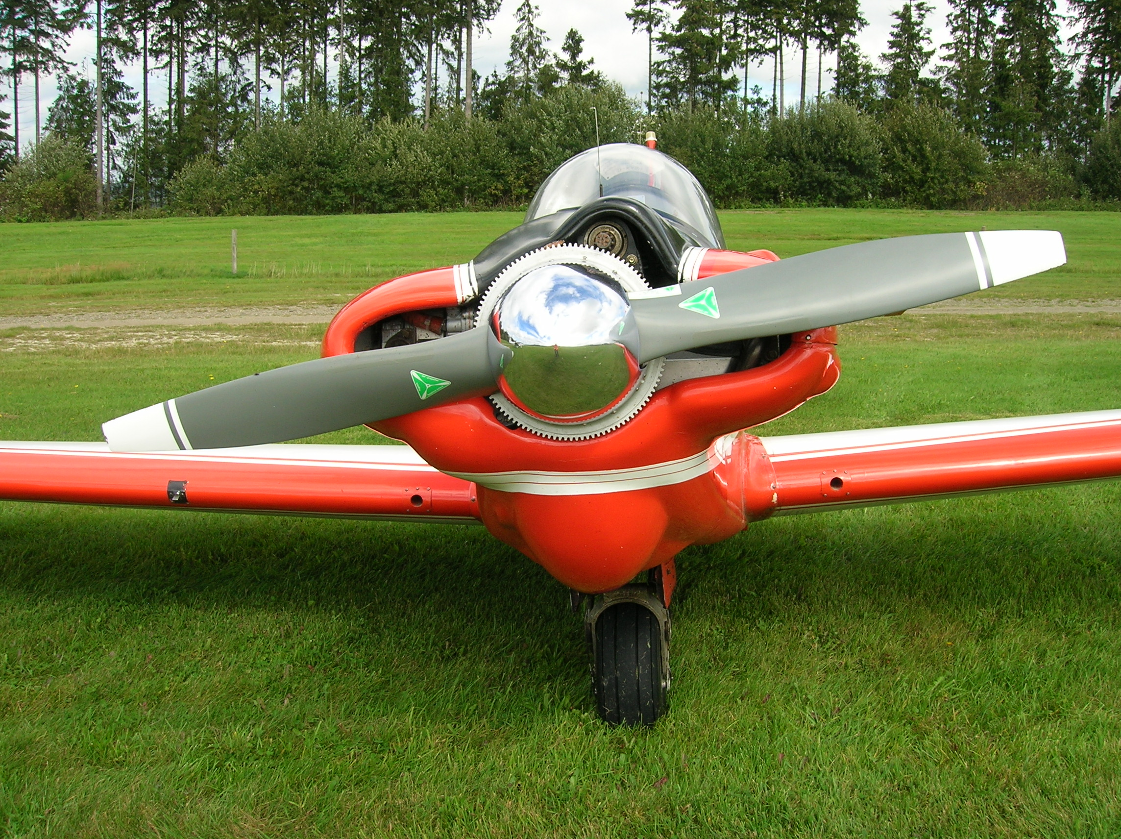 A Fournier RF 4 D during the „Bergfliegen 2011“ at Schmallenberg airfield